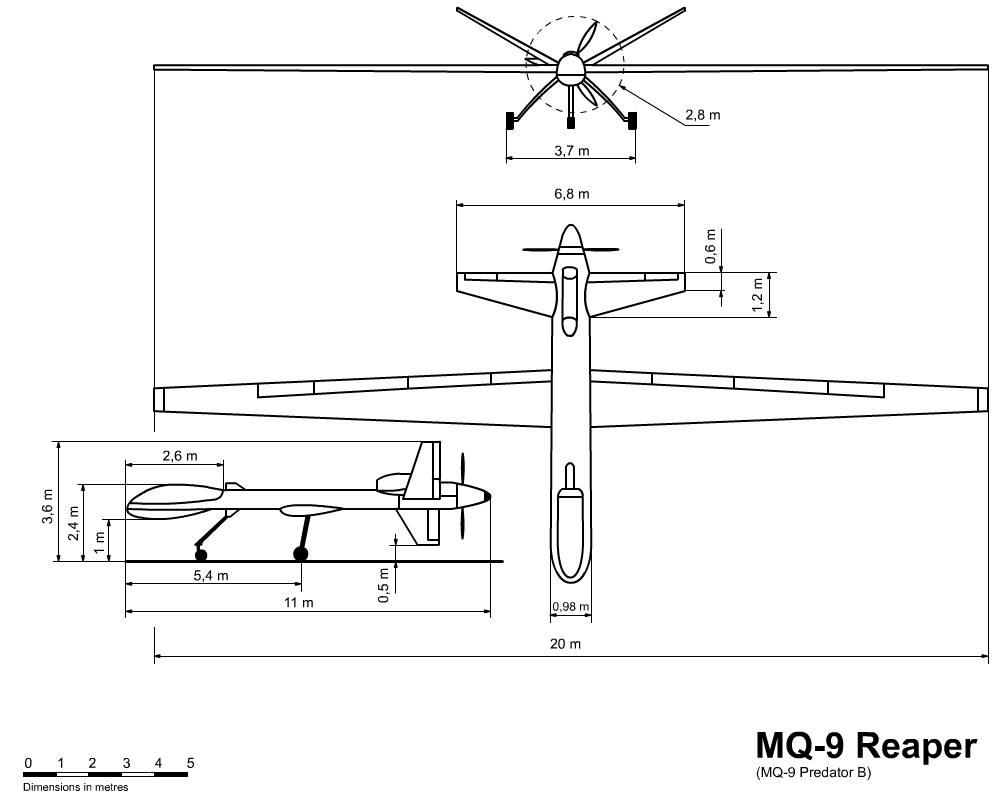 MQ-9 Reaper dimensioned sketch